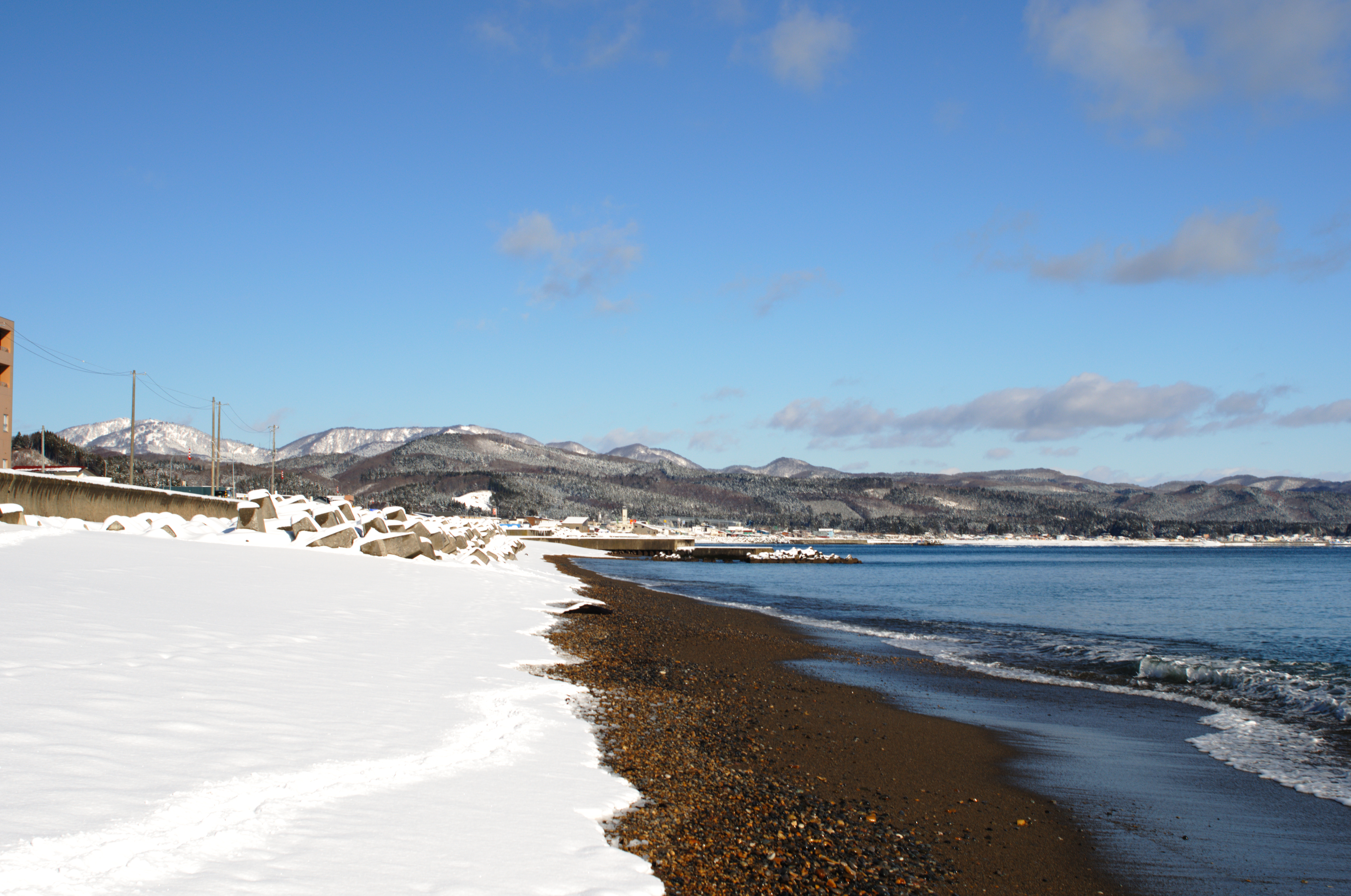 Japan, Hokkaidou, Kikonai-chou